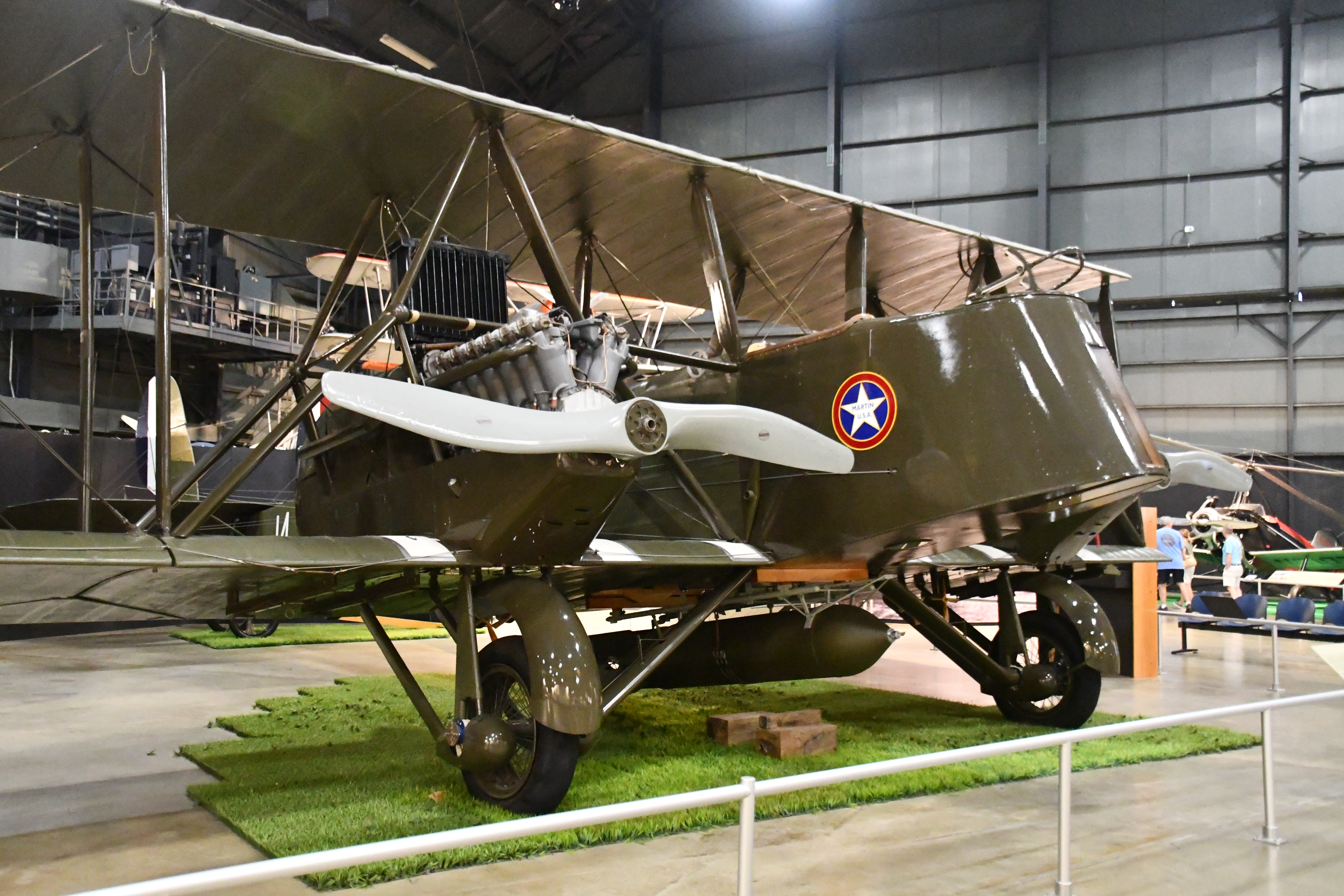 Full-scale Reprodution of the Martin MB-2 at the National Museum of the USAF, Dayton, OH